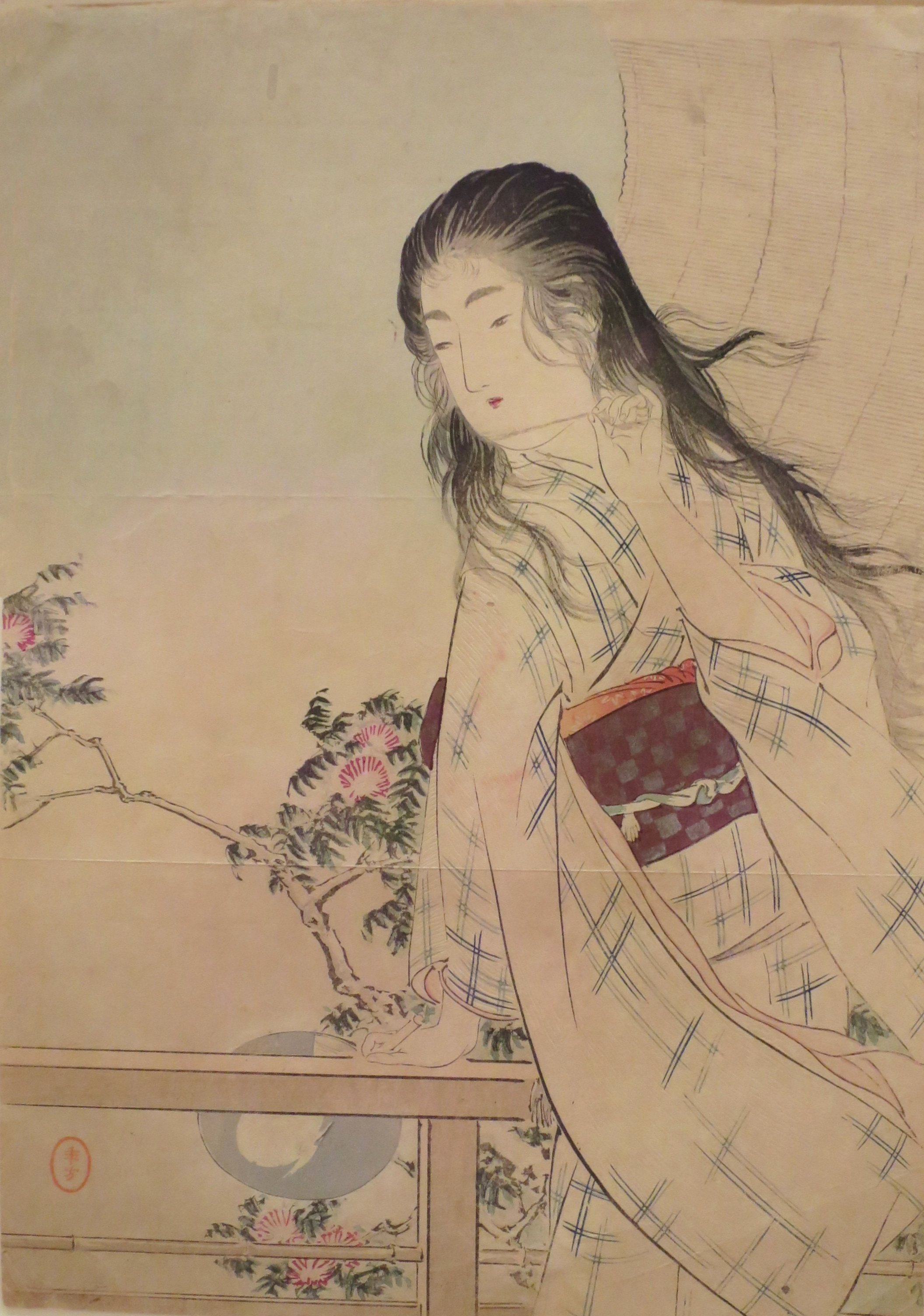 Iyo Blind a kuchi-e by Mizuno Toshikata, 1906, Honolulu Museum of Art, accession 27477